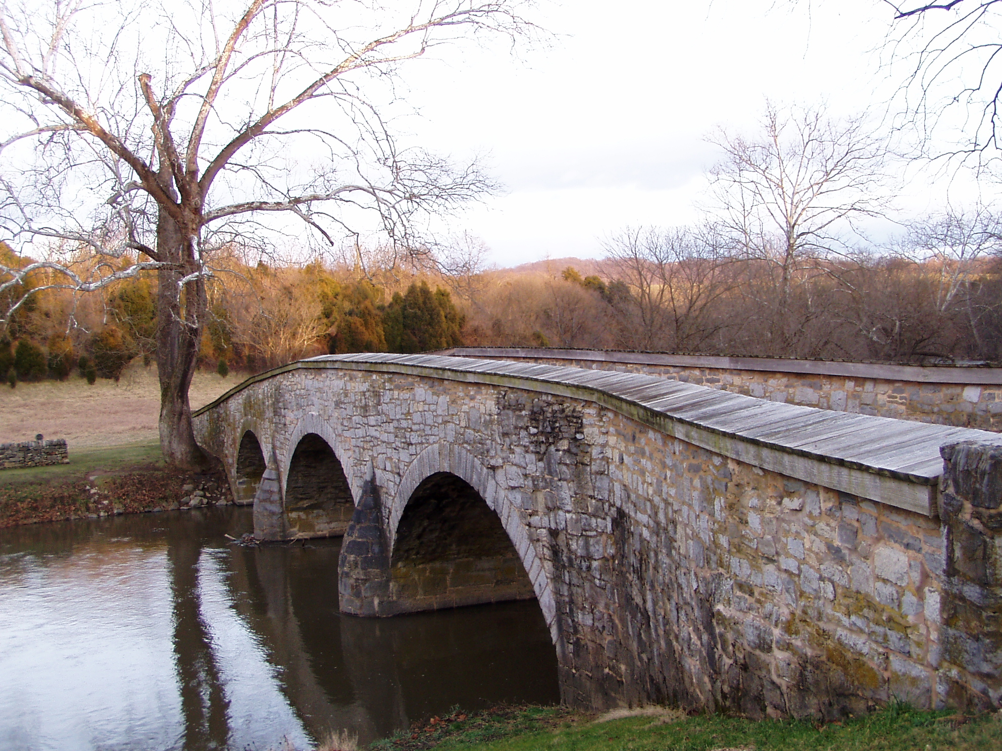 Confederate view of the Union position at Burnside's Bridge, Antietam Nat'l Battlefield. (Tour Stop #9)